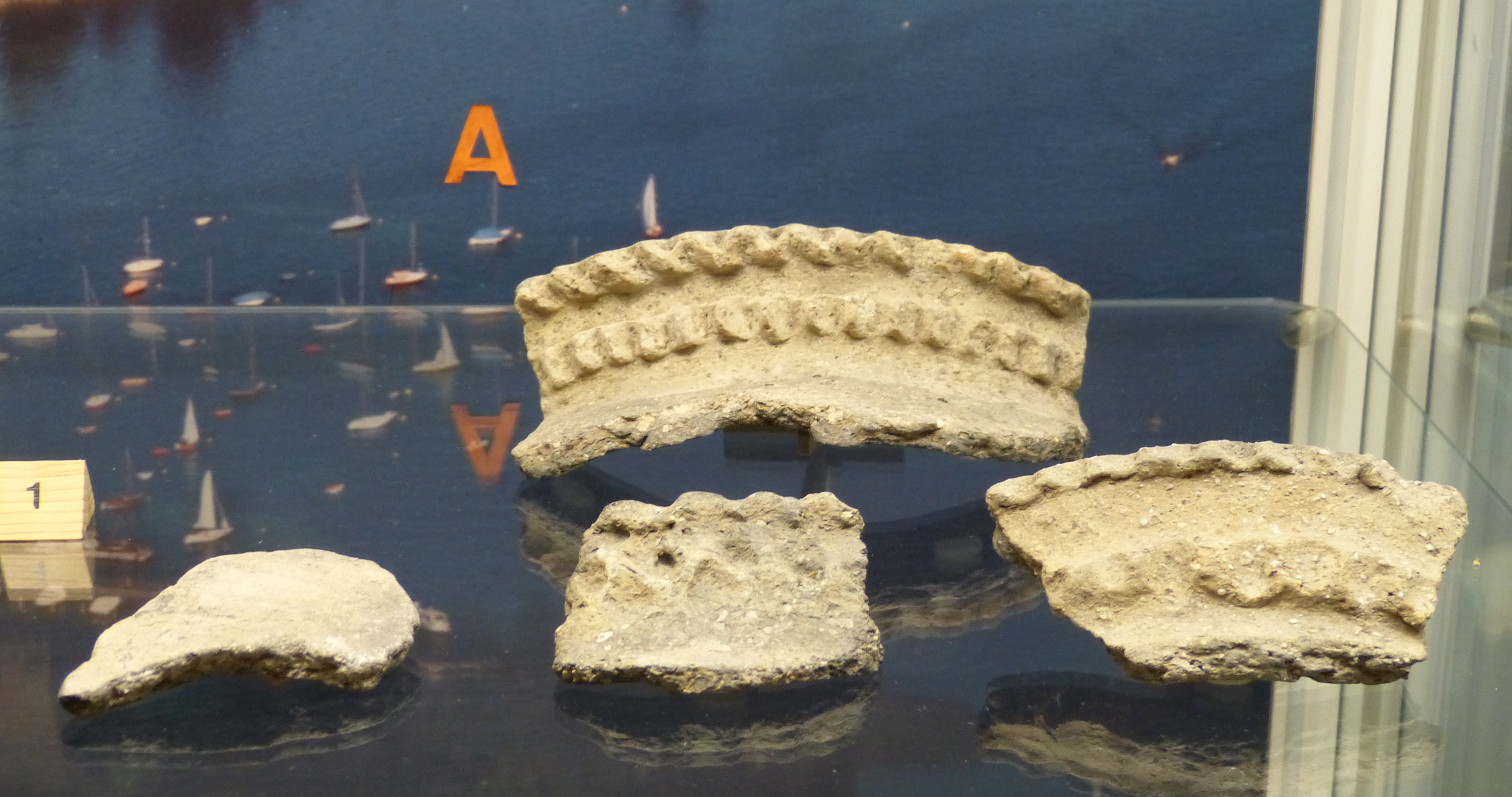 Gaienhofen ( Baden-Württemberg ). Höri-Museum - Stilt houses collection: Neolithic corded ware pottery ( 2600 BC ) from a stilt house village at Hornstaad-Schlössle I